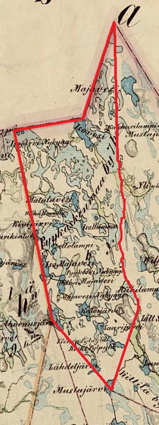 Old borders (reinforced) of Pyykoskenmaa village in Suodenniemi, Finland. This is a part of a larger map from 1851.